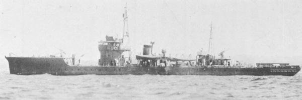 Japanese minelayer "Sarushima", at Tateyama.